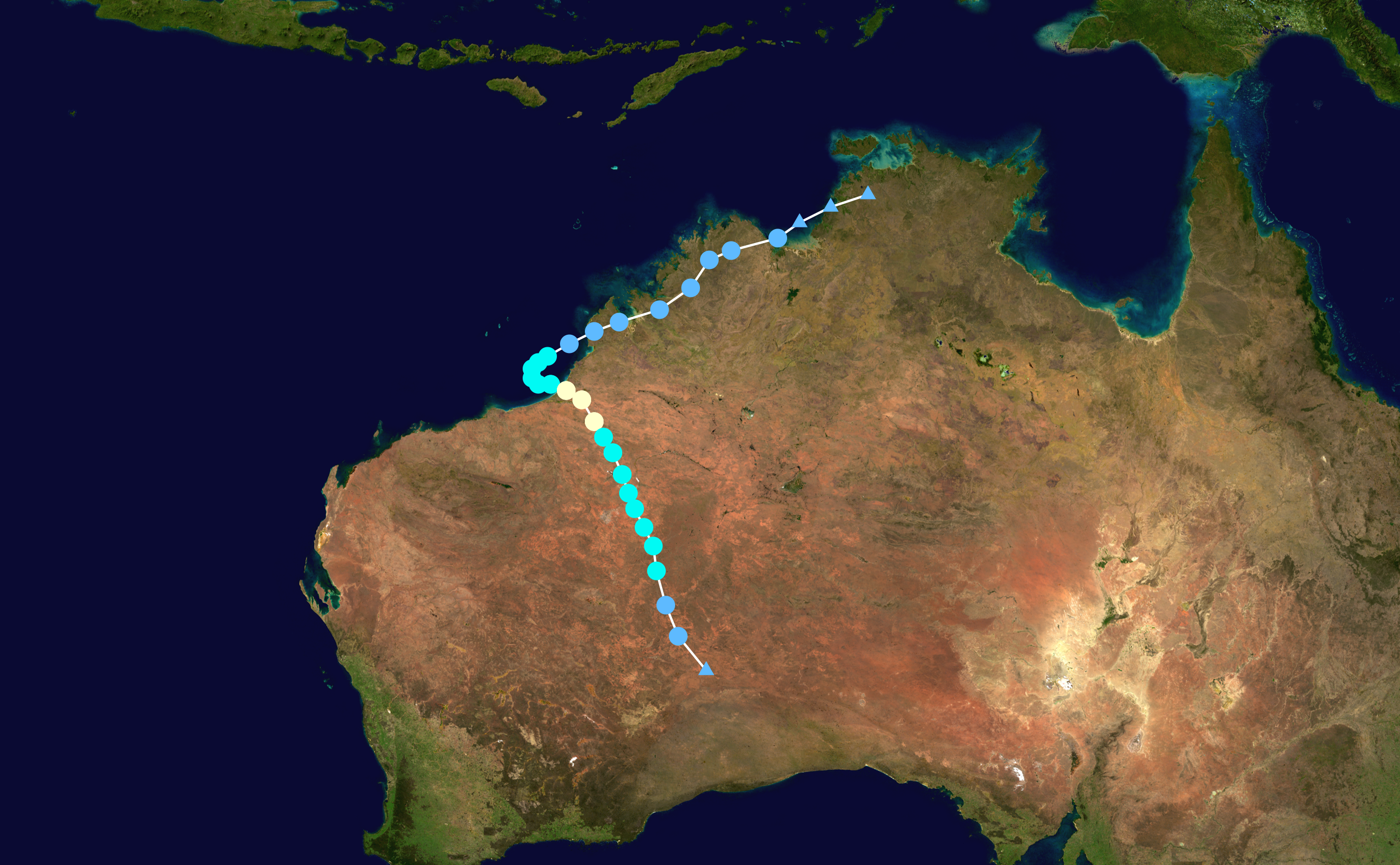 Track map of Severe Tropical Cyclone Kelvin of the 2017-18 Australian region cyclone season. The points show the location of the storm at 6-hour intervals. The colour represents the storm's maximum sustained wind speeds as classified in the Saffir–Simpson scale (see below), and the shape of the data points represent the nature of the storm, according to the legend below. Saffir–Simpson scale Tropical depression≤38 mph≤62 km/h Category 3111–129 mph178–208 km/h Tropical storm39–73 mph63–118 km/h Category 4130–156 mph209–251 km/h Category 174–95 mph119–153 km/h Category 5≥157 mph≥252 km/h Category 296–110 mph154–177 km/h Unknown Storm type Tropical cyclone Subtropical cyclone Extratropical cyclone / Remnant low / Tropical disturbance / Monsoon depression